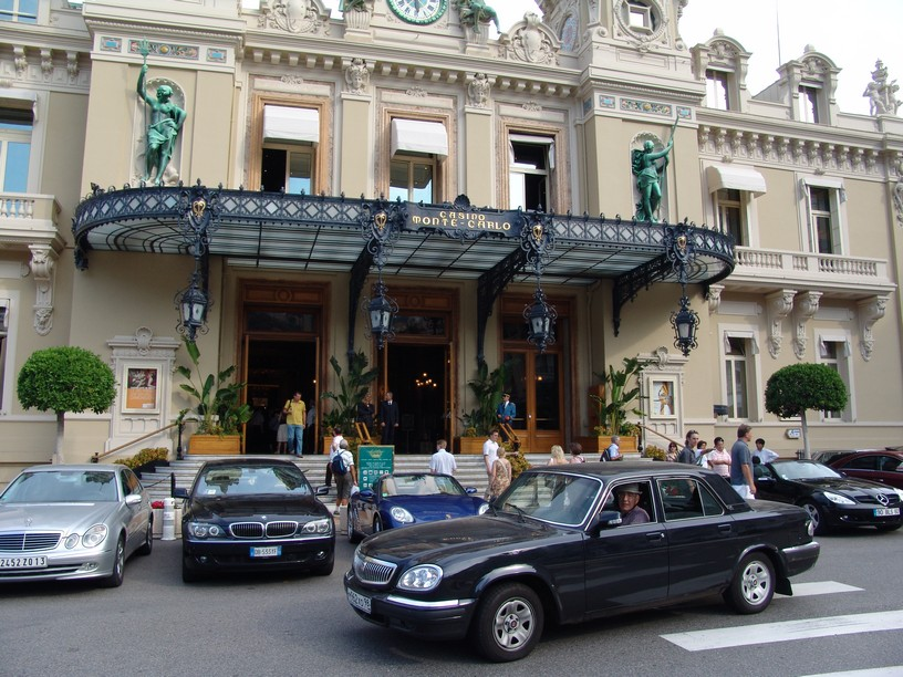 GAZ 3105 in Monaco